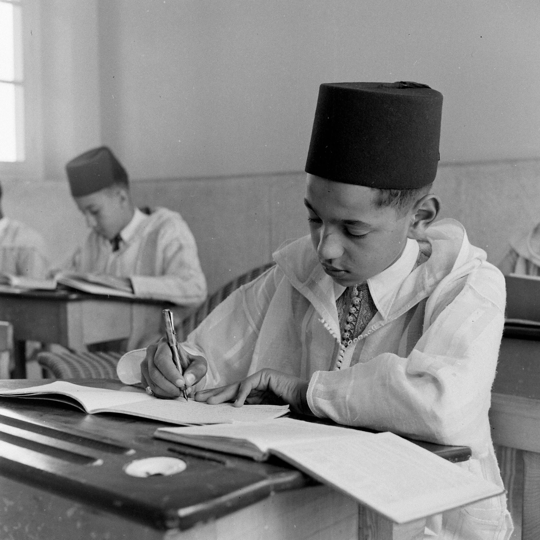 Prince Hassan Ibn Muhammad studying in 1943